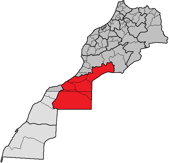 Location of the region Guelmim-Es Semara, Morocco. In total, Morocco has 16 regions, subdivided into 62 provinces and 13 prefectures.